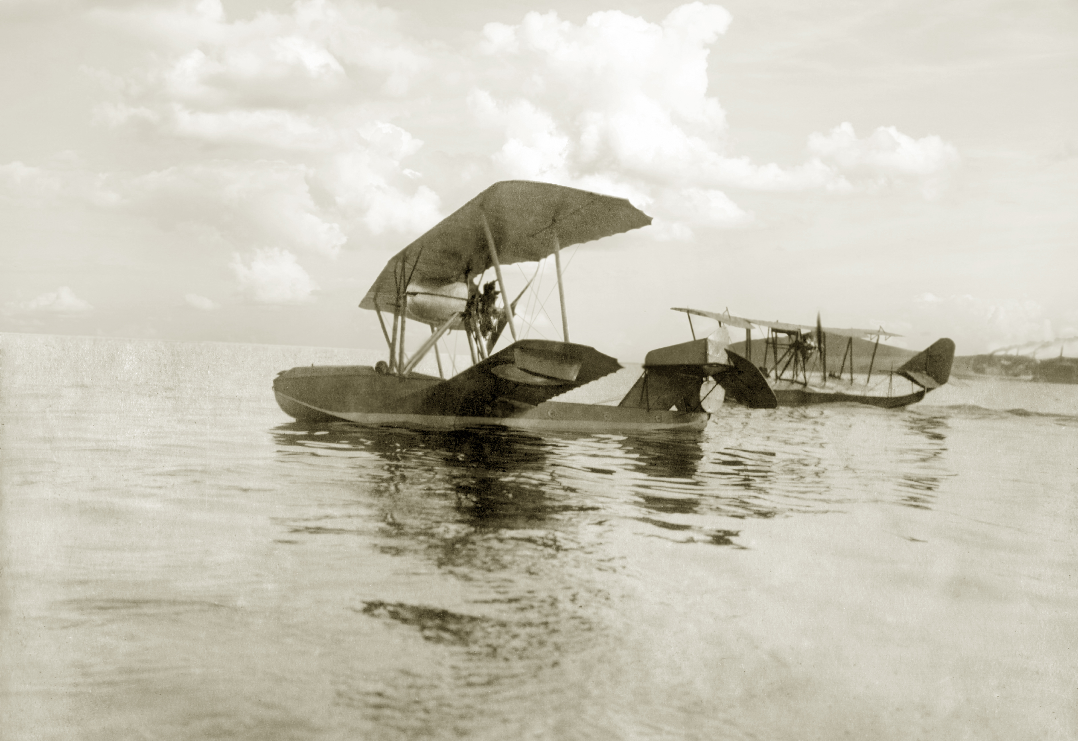 Naval Aviation Officer's School in Baku.